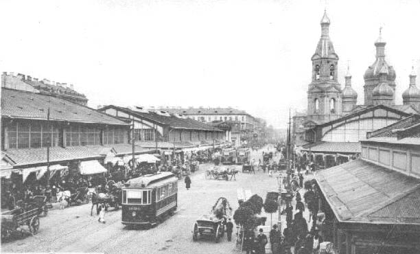 The Brush singles at Sadovaya Street. Sennoy food market. Near 1910